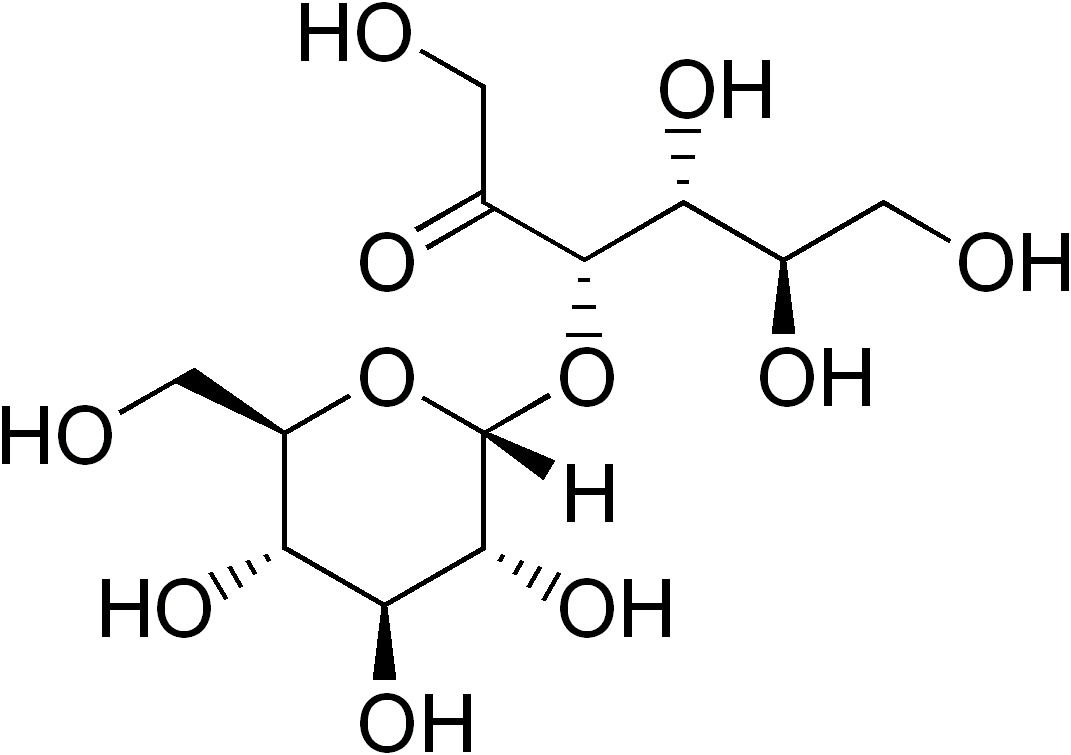 chemical structure of D-(+)-turanose